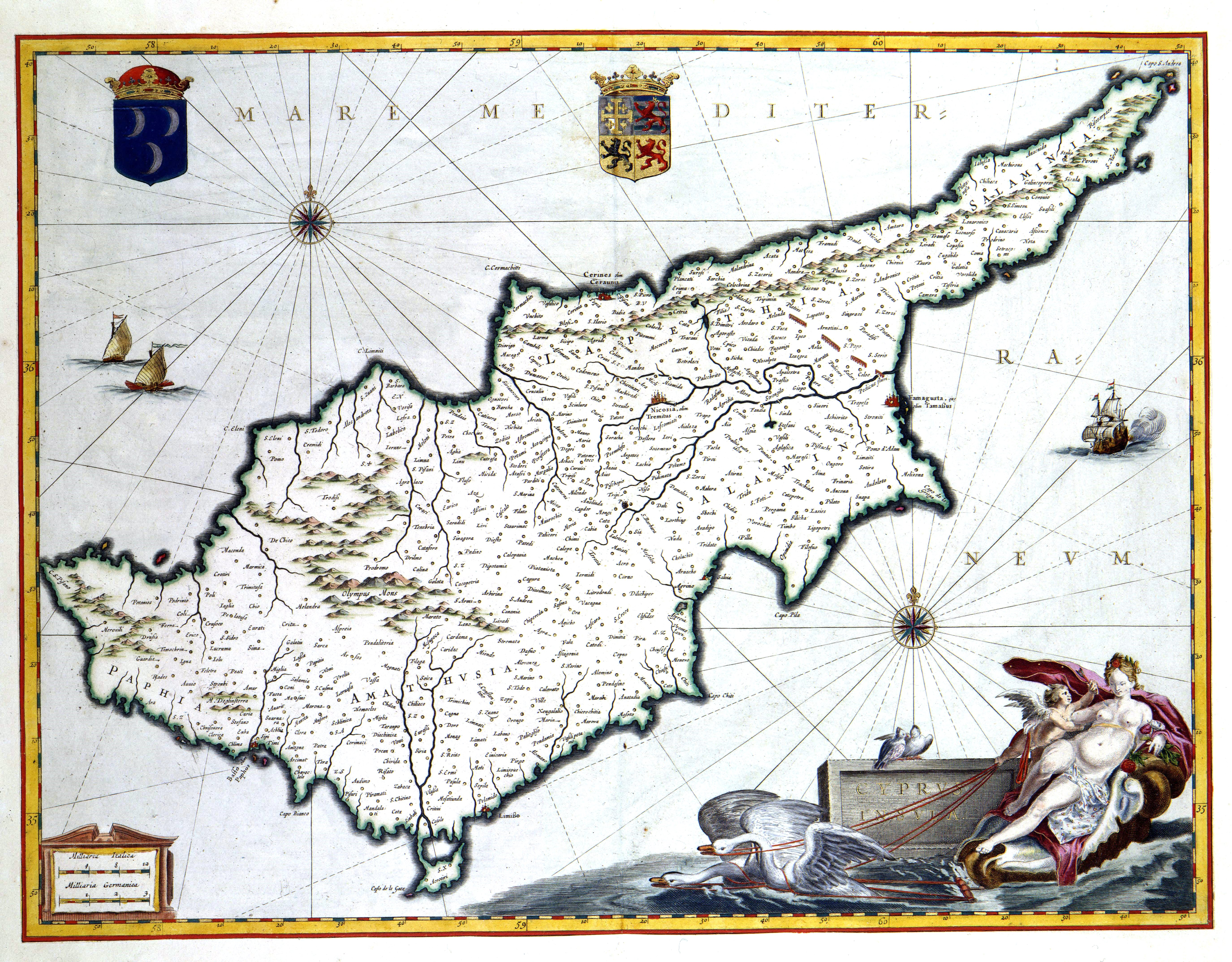 The island Cyprus was conquered in 1570 by the Turkse army from the Republic of Venice. For three hundred years it became part of the Turkish Empire. This map of Cyprus was published in 1635 by Willem Jansz. Blaeu (1571-1638) and Joan Blaeu (1598-1673). Father and son Blaeu derived the image from a 16th-century example by the Italian cartographer Giacomo Gastaldi (1500-1566).